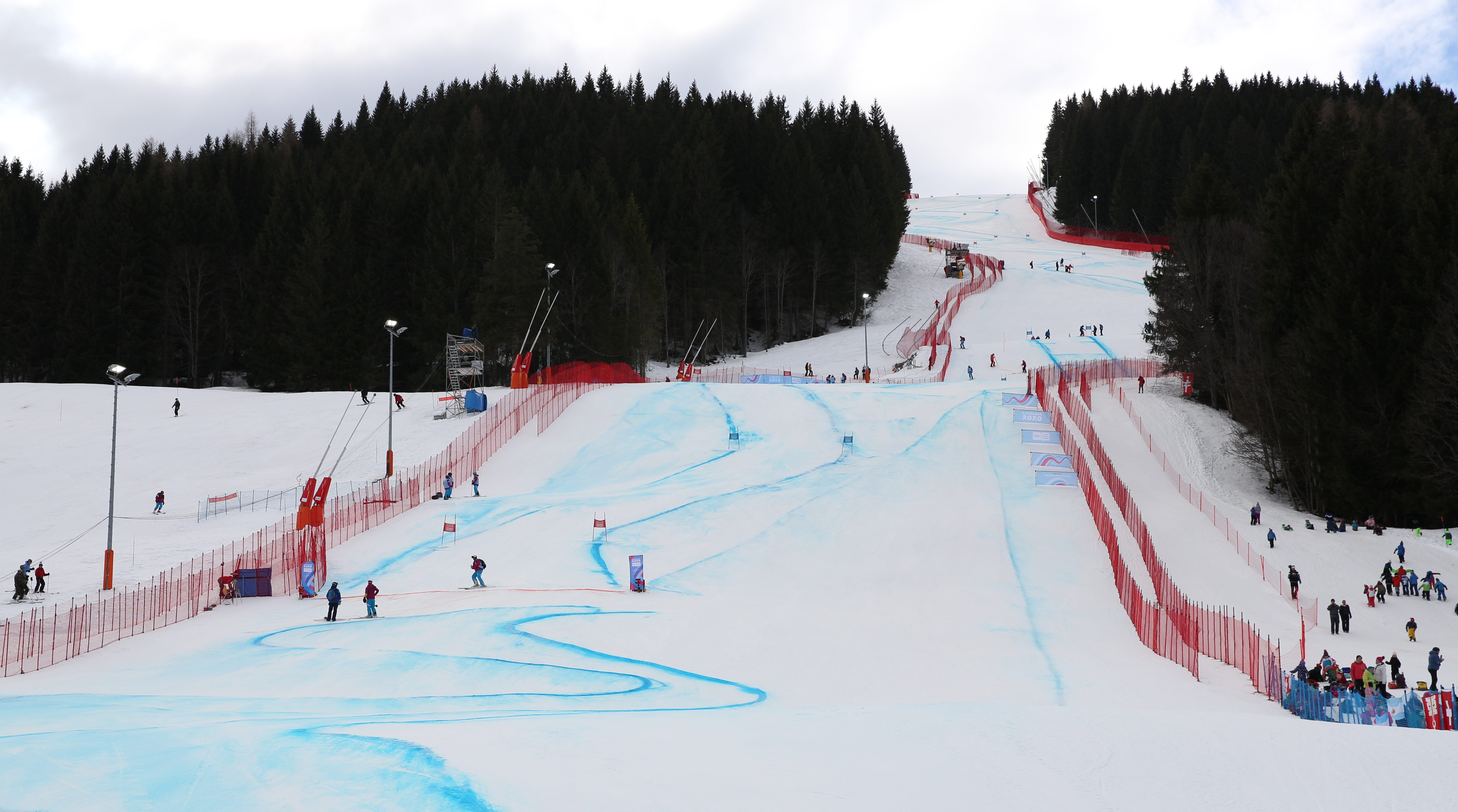 Women's Super G at the 2020 Winter Youth Olympics in Lausanne